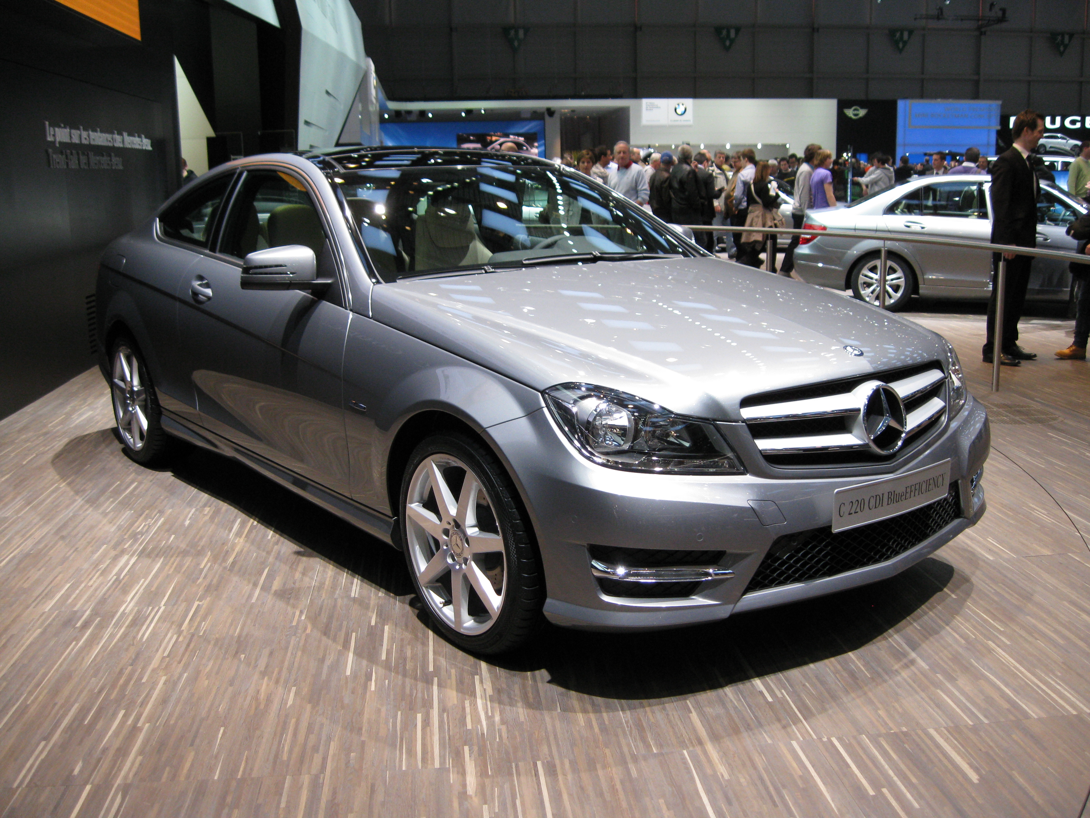 Geneva Motor Show 2011